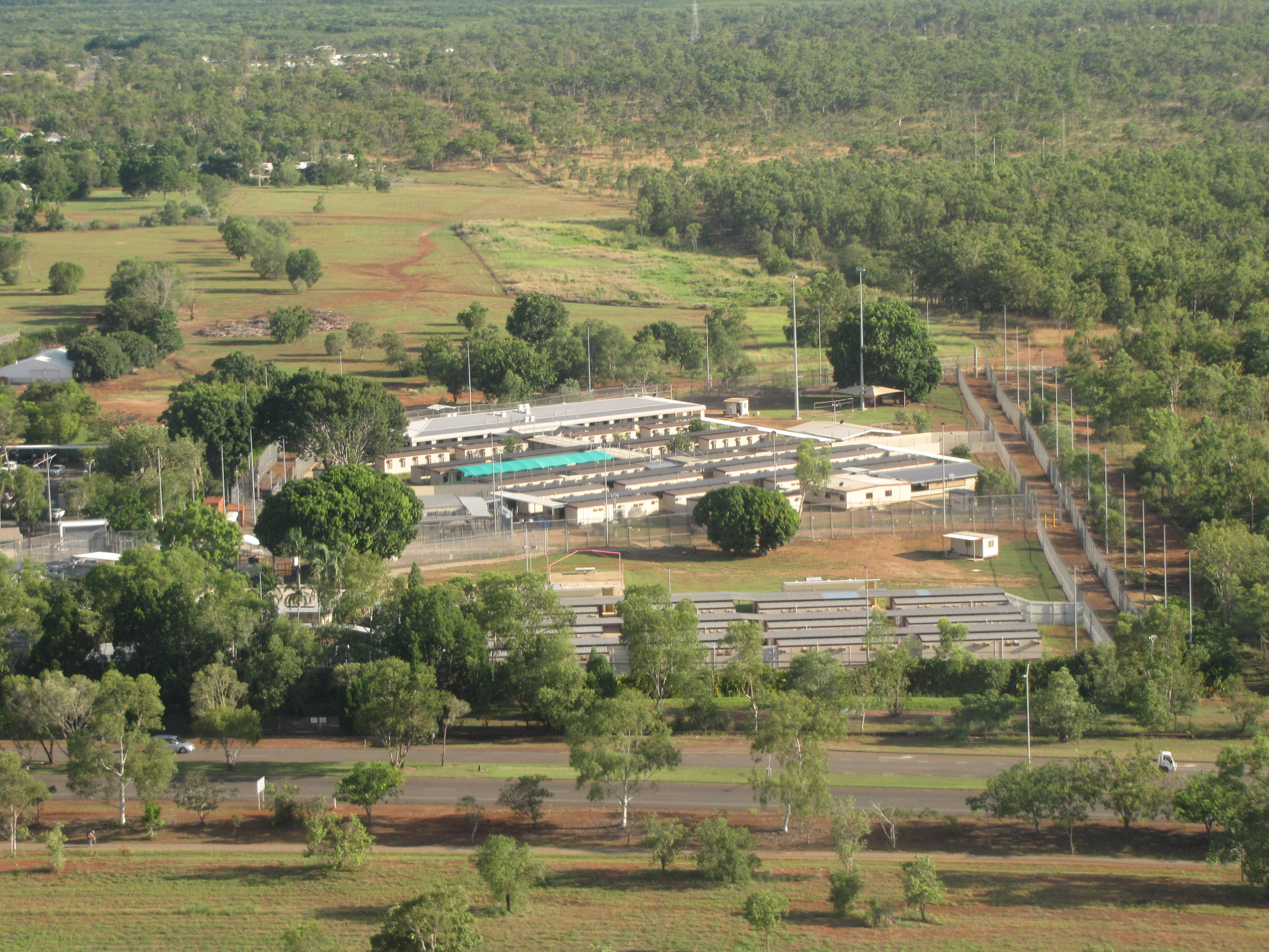 The Northern Immigration Detention Facility at Defence Base Darwin. Completed in 2002 the two compounds remained unused until the closer compound was upgraded in 2005 to hold illegal fishermen. The closer Northern compound holds 300 and the rearmost Southern compound holds 400.